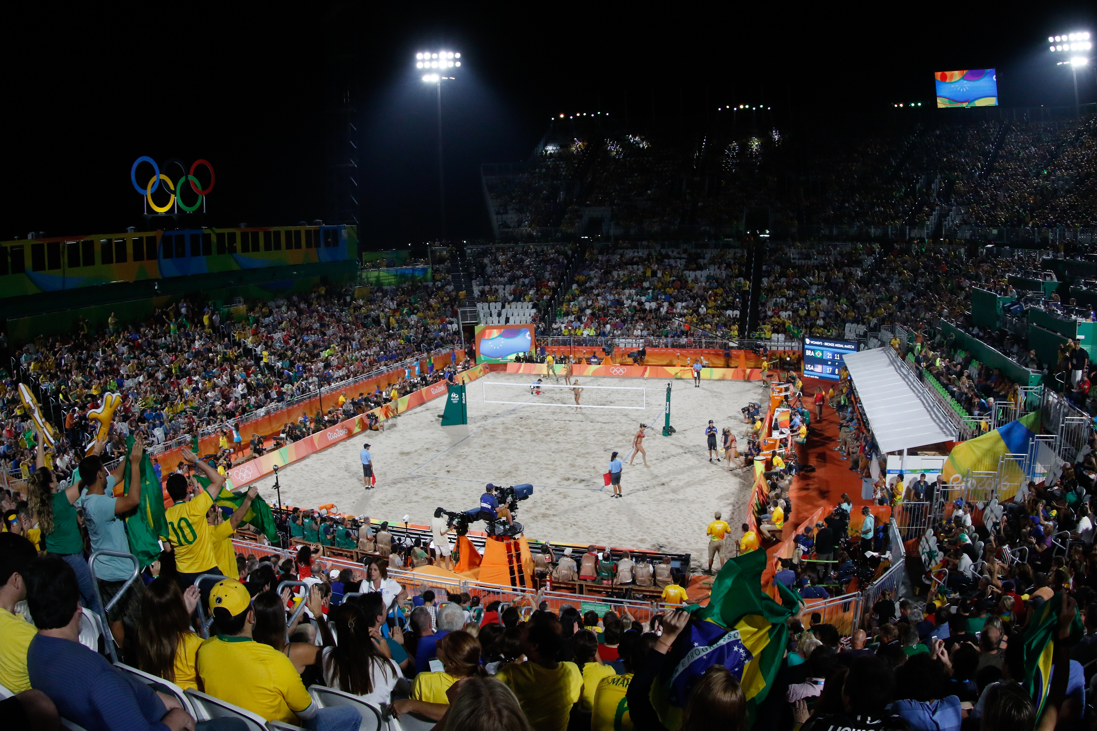 Rio de Janeiro - Dupla de vôlei de praia do Brasil Larissa e Talita perdem a disputa de bronze para norte-americanas Walsh e Ross nos Jogos Olímpicos Rio 2016, em Copacabana ( Fernando Frazão/Agência Brasil)